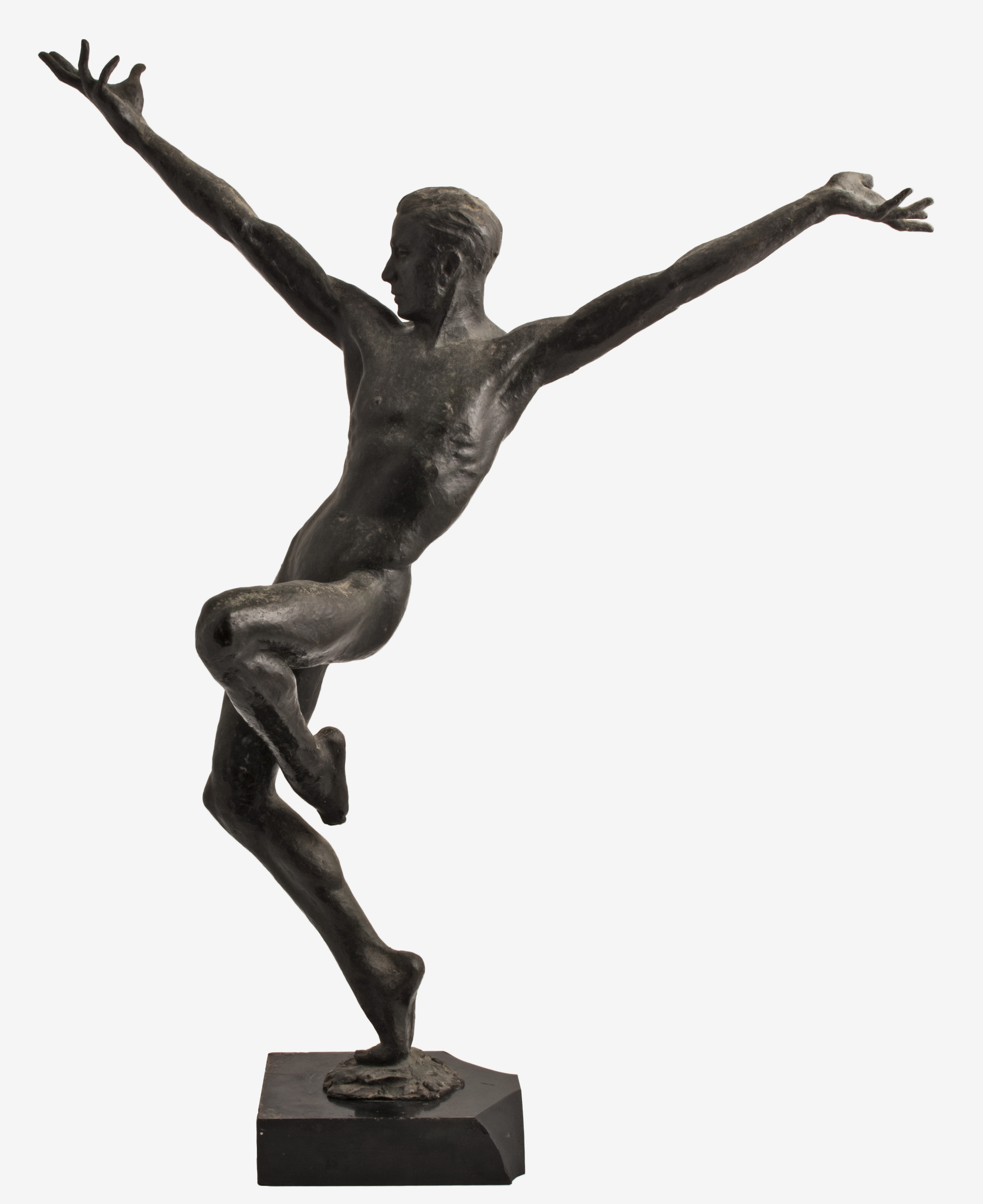 Fanie Eloff sculpture